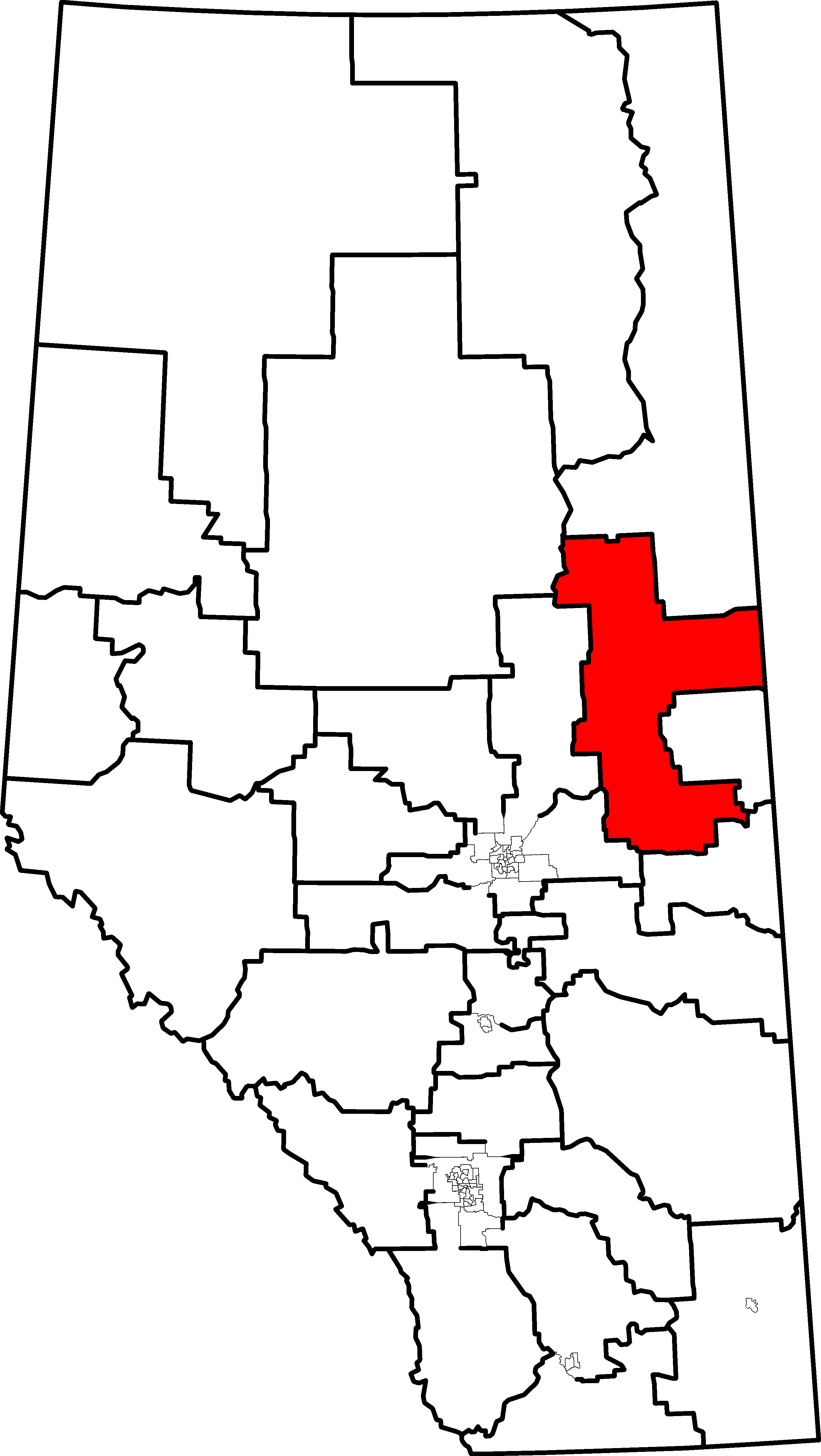 A map of the Alberta provincial electoral districts, effective 2010. Lac La Biche-St. Paul-Two Hills is highlighted in red.